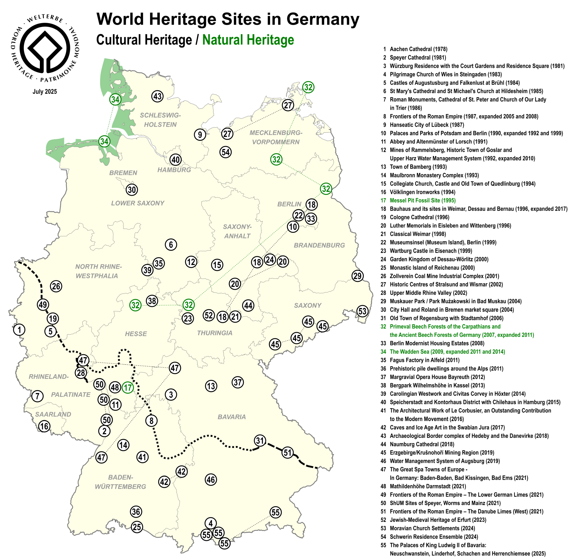 Map of World Heritage Sites in Germany